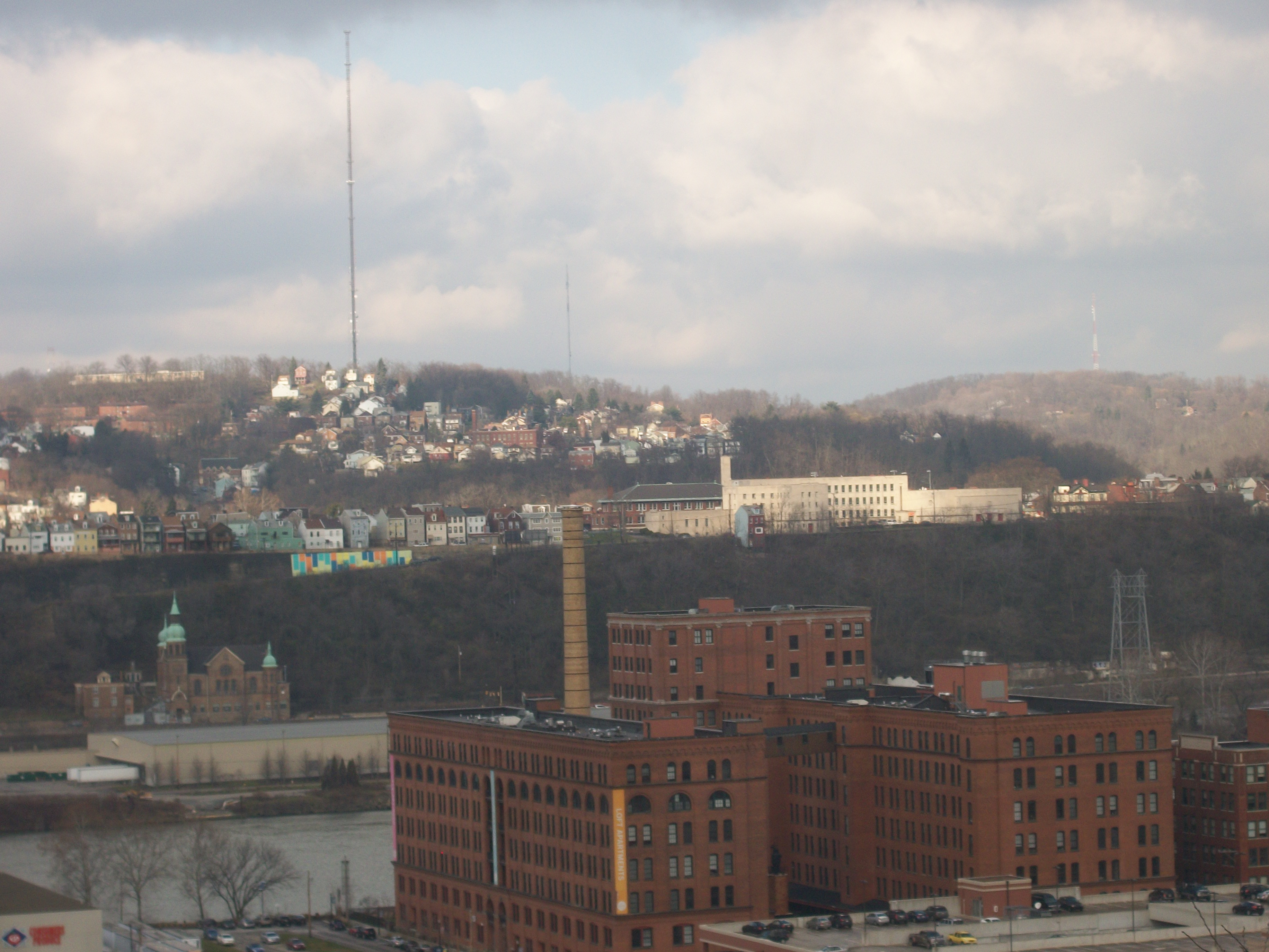 View of the Strip District, Troy Hill, and Spring Hill from Frank Curto Park. Taken 12-18-11